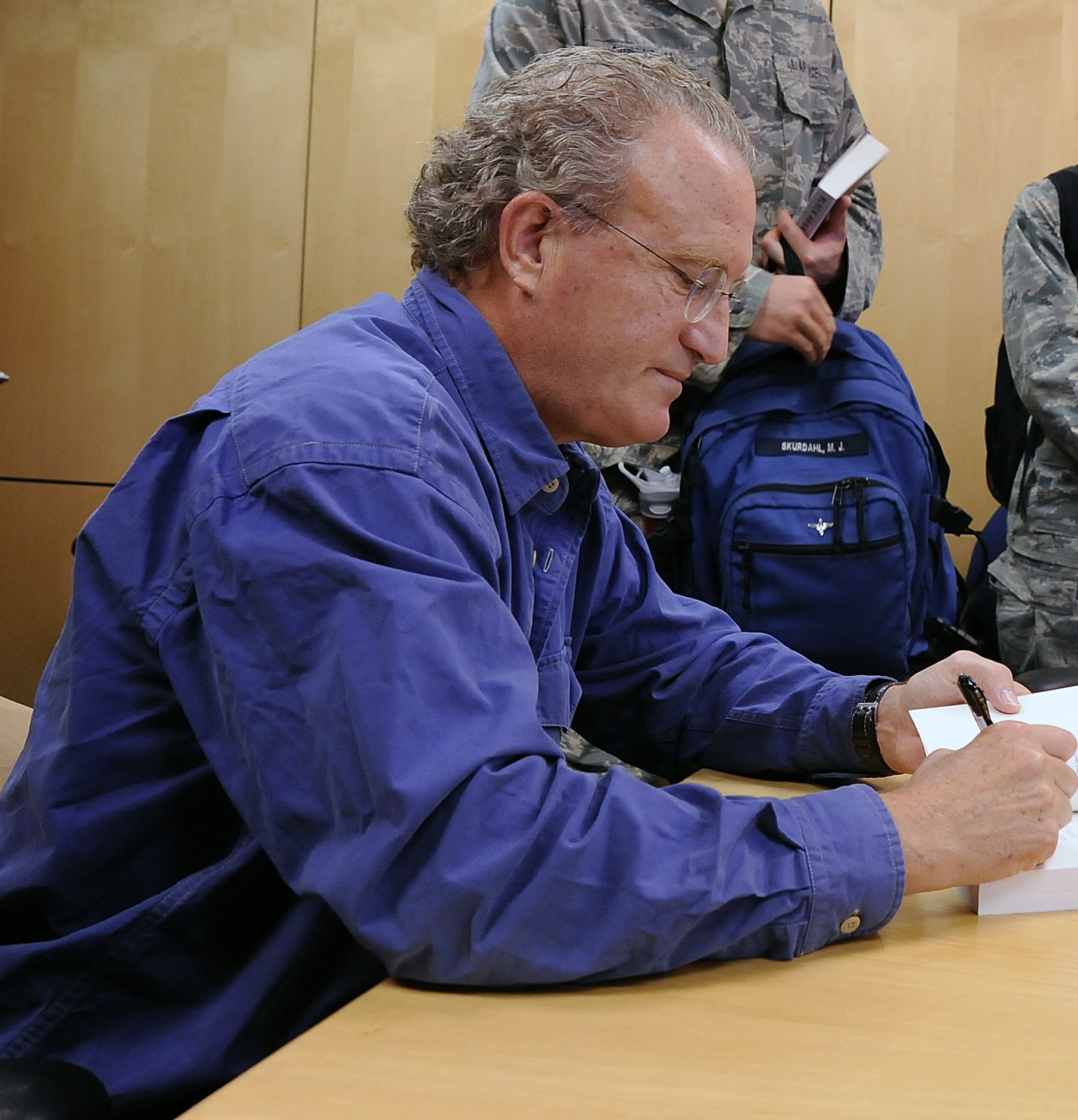 Mark Bowden, author of “Black Hawk Down” and several other works of nonfiction, autographs a copy for Cadet 3rd Class Mathew Gamm of Cadet Squadron 18. Bowden came to the Air Force Academy for two days, delivering a lecture about the reporting behind “Black Hawk Down” and also visiting cadets in their classes.